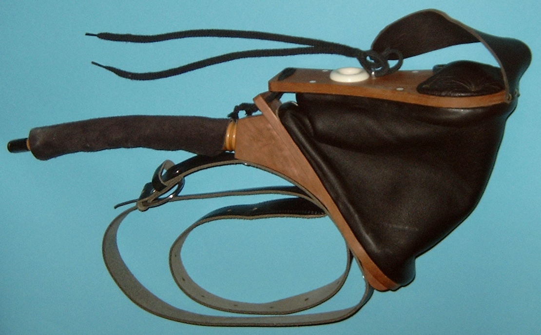 bellows for bagpipes with low to moderate air flow